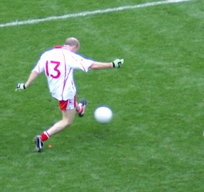 Peter Canavan shoots during the 2005 All-Ireland Senior Football Championship Final - Tyrone versus Kerry. Cropped image from the one on Flickr.